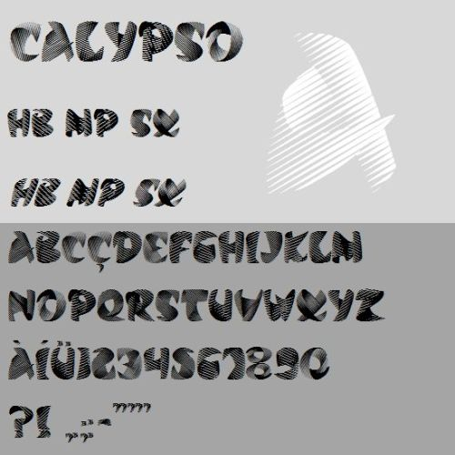 Calypso Typeface